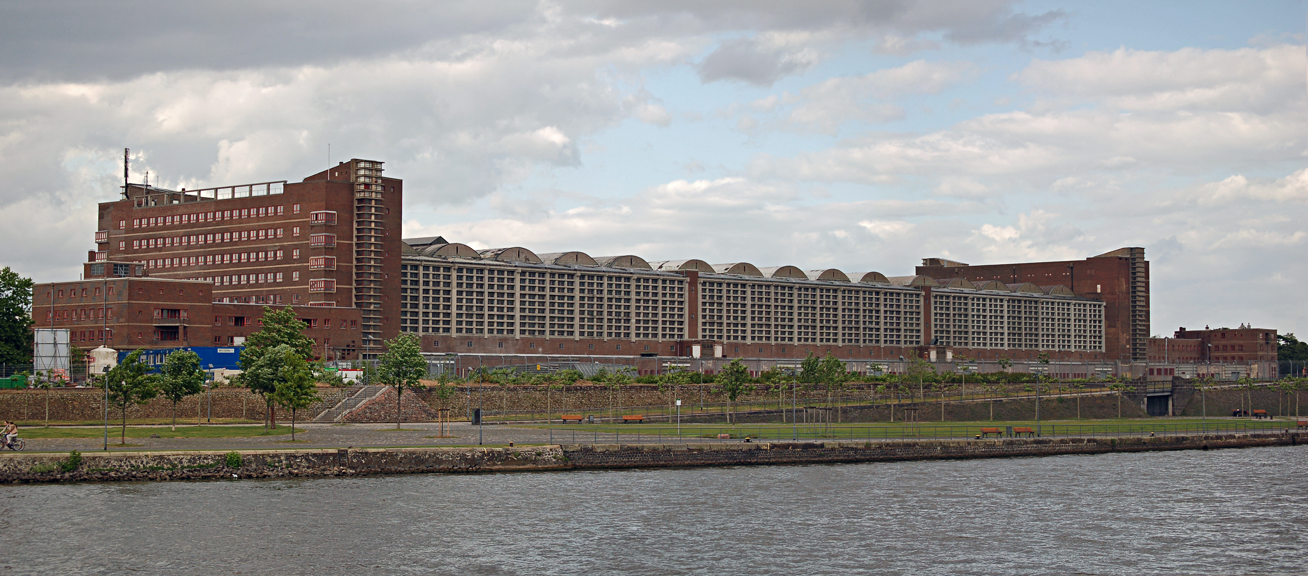 The Großmarkthalle in Frankfurt am Main with annexes in May 2007. Meanwhile the annexes were released from monument protection and have been demolished.